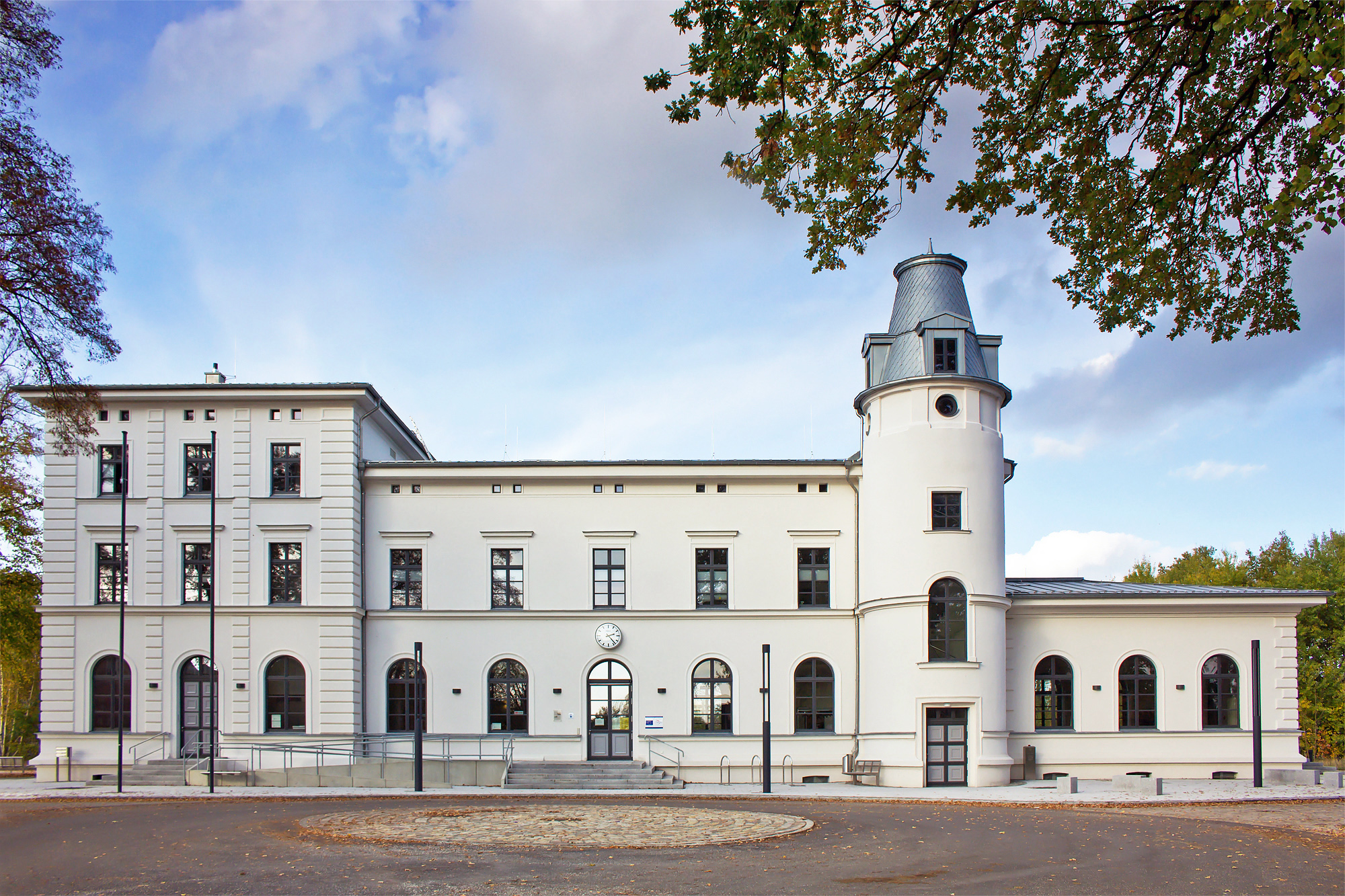 South view of the railway station "Dannenberg Ost" in Dannenberg (Elbe), built in 1874 (here after renovation in 2012). The building shape is reminiscent of a steam locomotive.